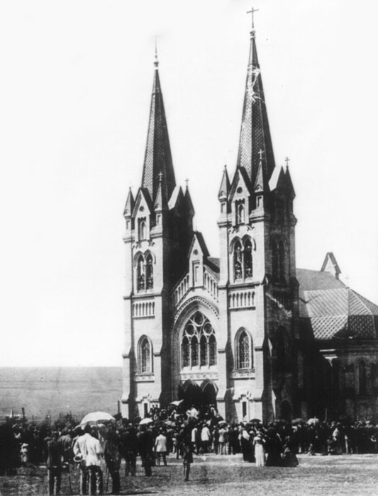 Roman Catholic Church of Saint Nicholas, Kamianske